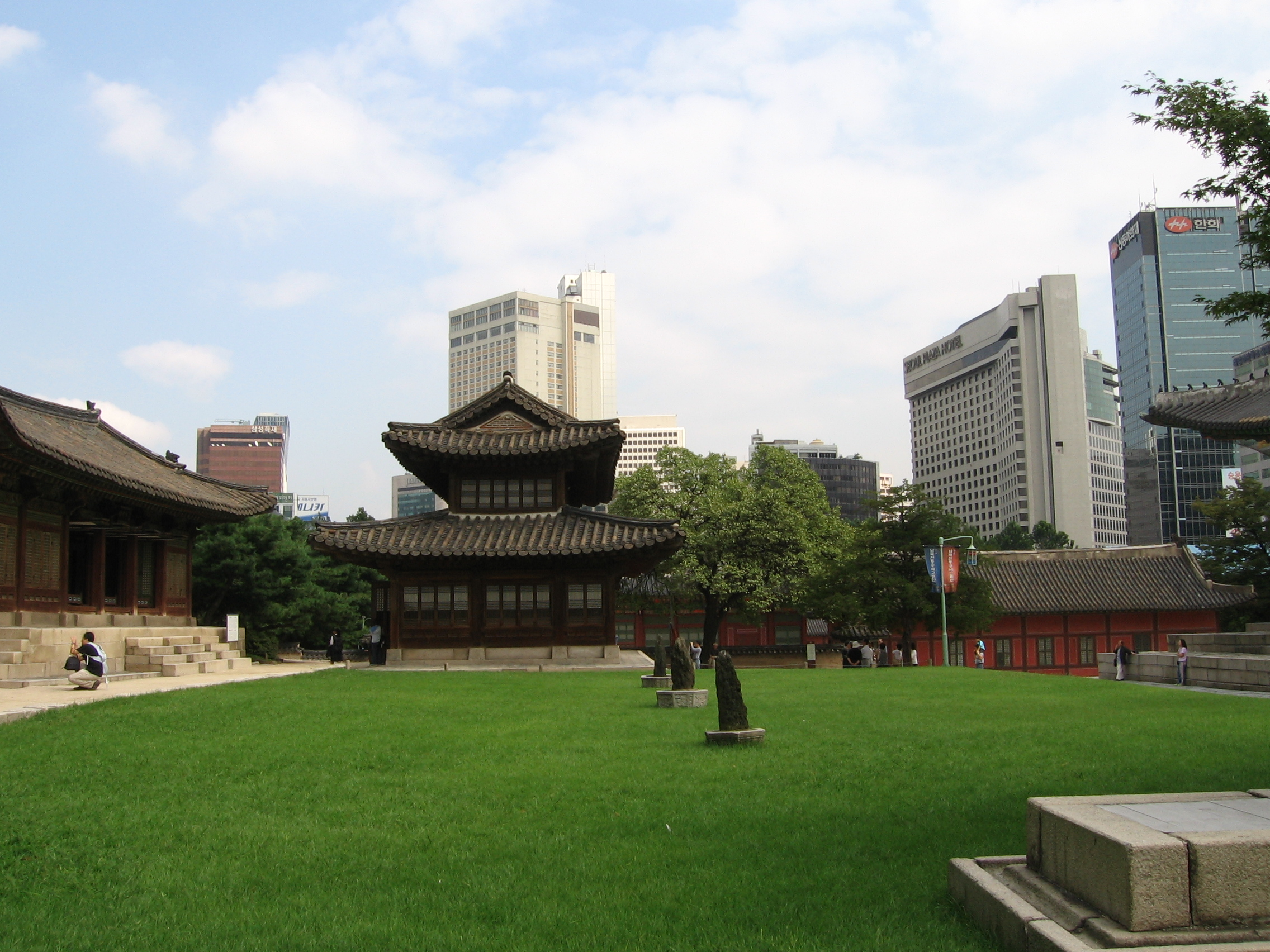 Ancient and modern buildings at the Deoksu-gung Palace in Seoul. Taken myself on 2005-September-10. Johannes Barre, iGEL (talk) 19:24, 2 October 2005 (UTC)